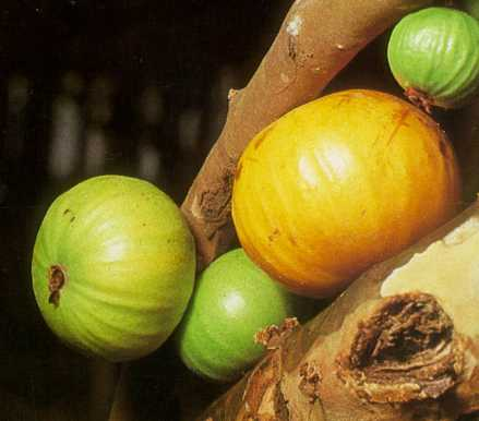 Cambucá fruit, native from Brazil